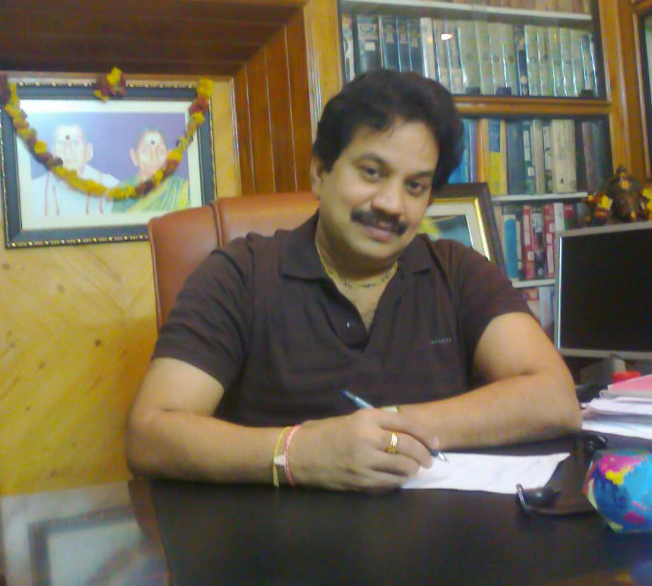 Sana Yadi Reddy Office Picture